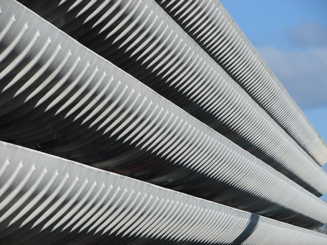 The Preston Bus Station Car Park in Lancashire, England from